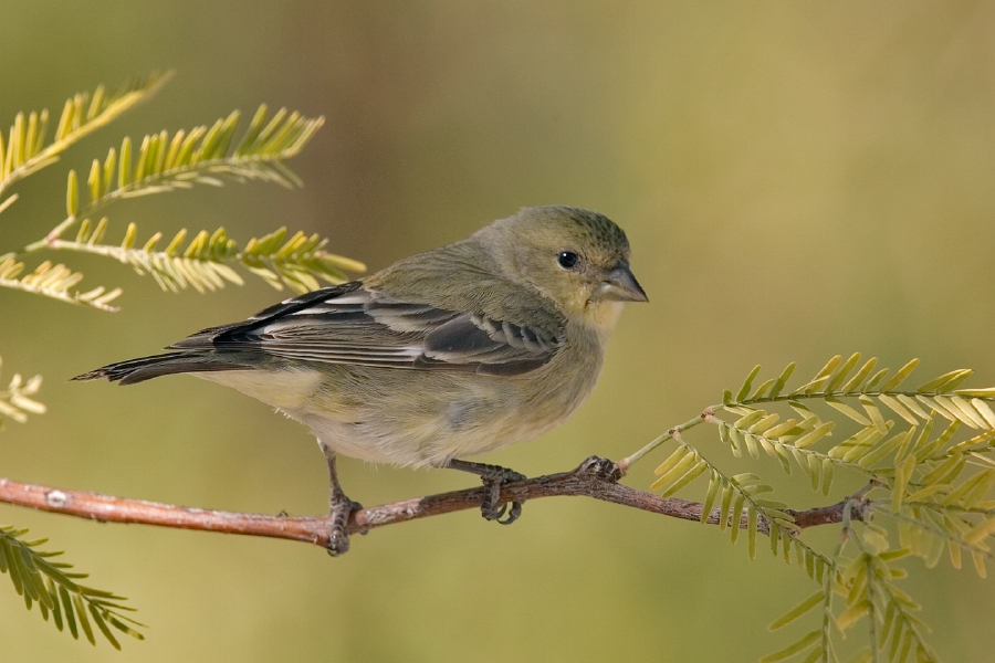 Carduelis psaltria - Lesser Goldfinch (Female), Carol's Garden, Palm Canyon Resort, Borrego Springs, California